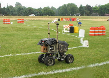 A robot from Bob Jones University competes in the Autonomous Challenge at the Intelligent Ground Vehicle Competition in Rochester, Michigan in 2009.